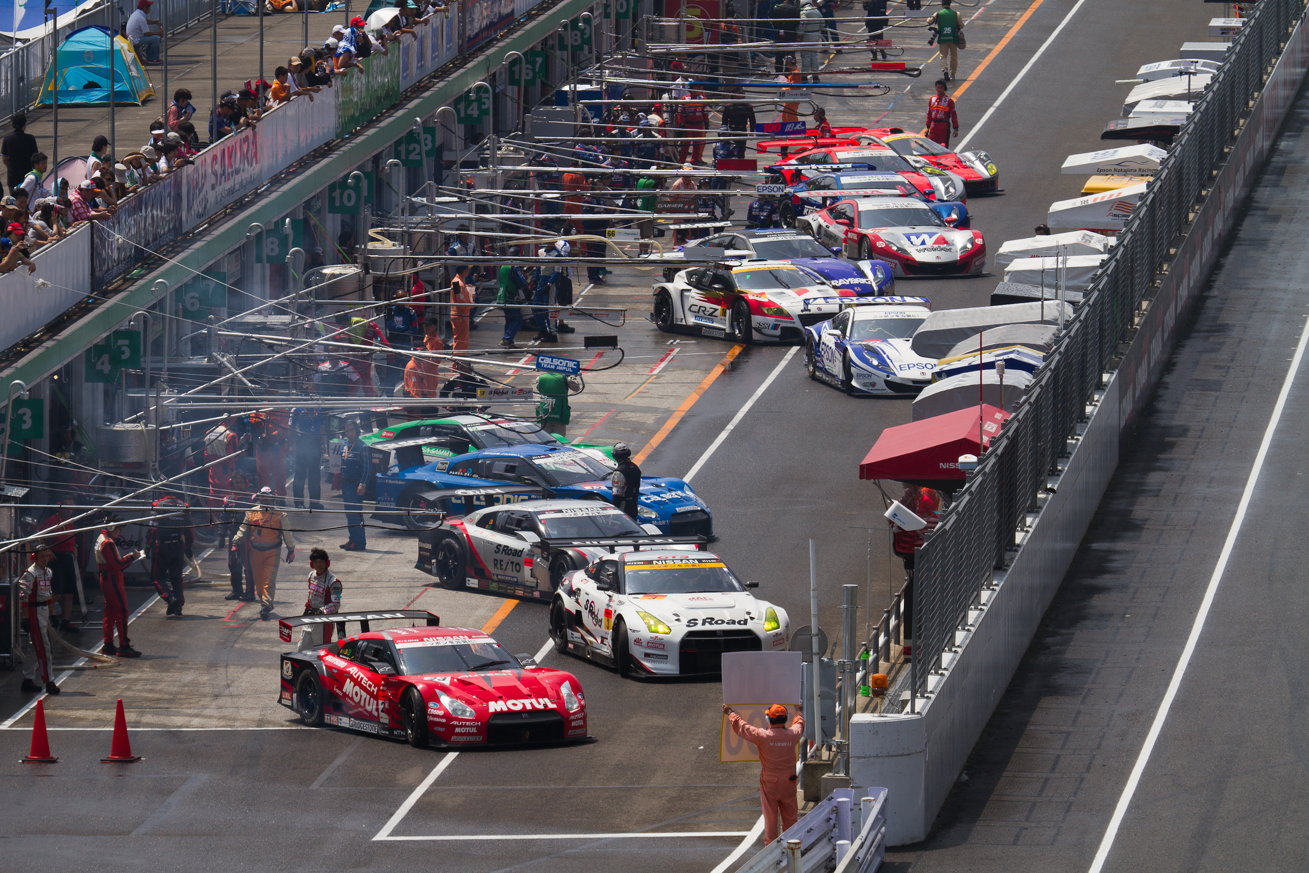 Super GT 2012 Rd.4 SUGO GT 300km: pitlane open